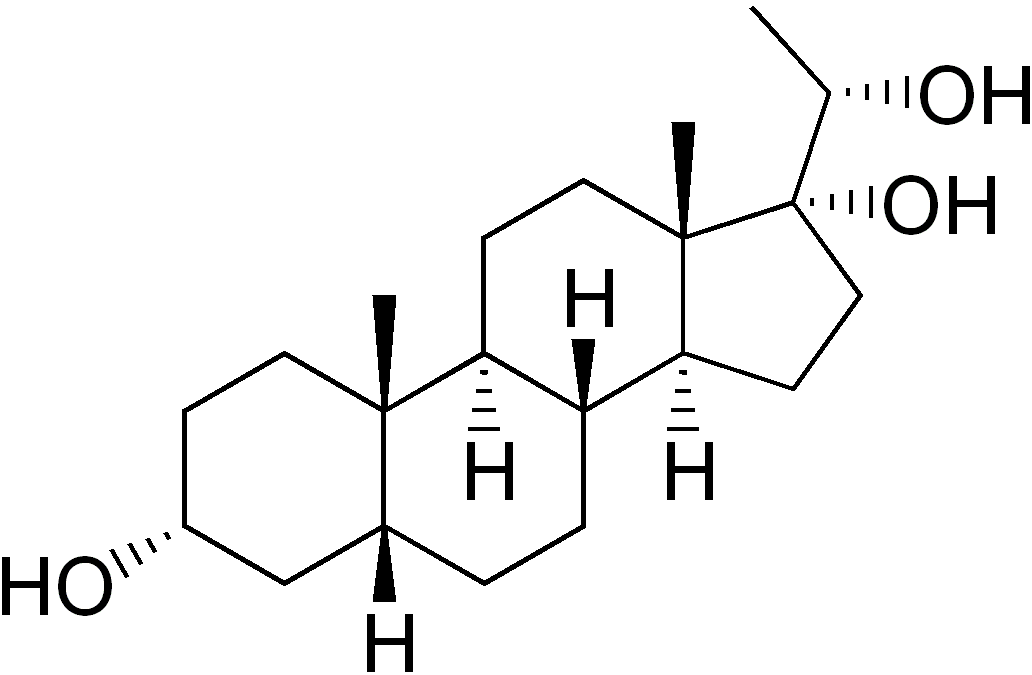 chemical structure of pregnanetriol